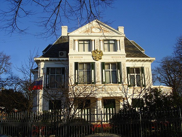 Embassy of Russia in The Hague